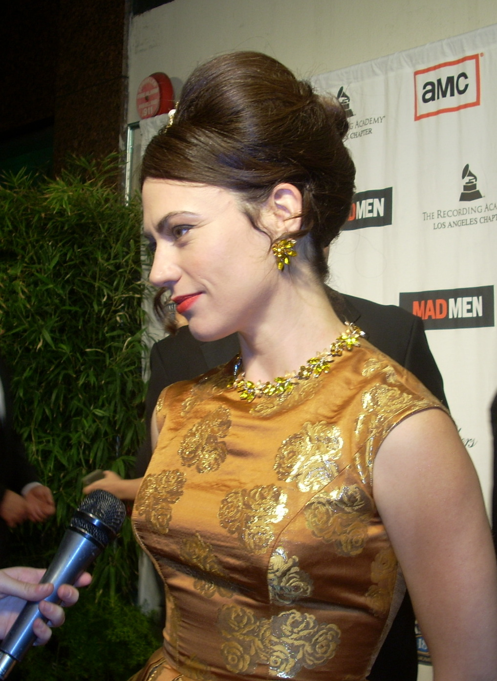 Actress Maggie Siff at Chivas Regal Presents a Night on the Town with "Mad Men" - El Rey Theater, Los Angeles - Oct. 21, 2008